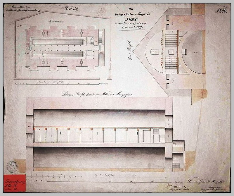 Plans of the wartime ammunitions depot "Jost", part of the bastion "Jost" of the Federal Fortress of Luxembourg.